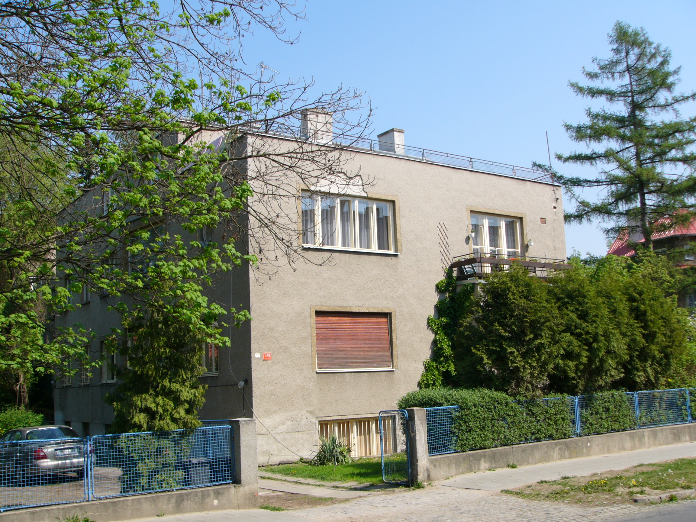 Vila of Paula and Hans Briess at 12 Na vozovce street in Olomouc (Czech Republic).